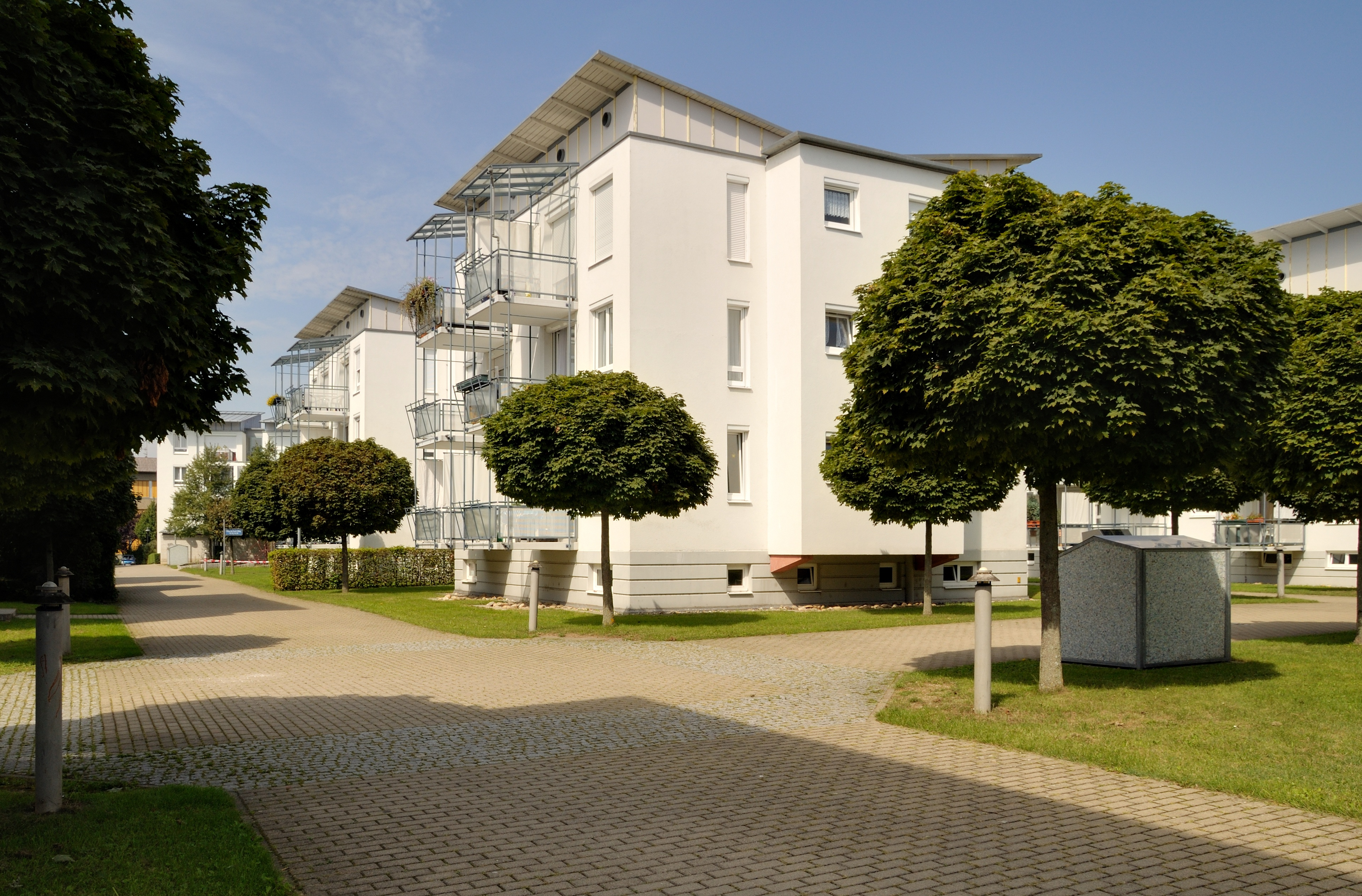 Lörrach: Housing Area "Stadion"